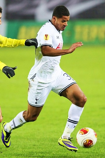 Zeki Fryers1